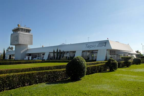 Airport MMEP